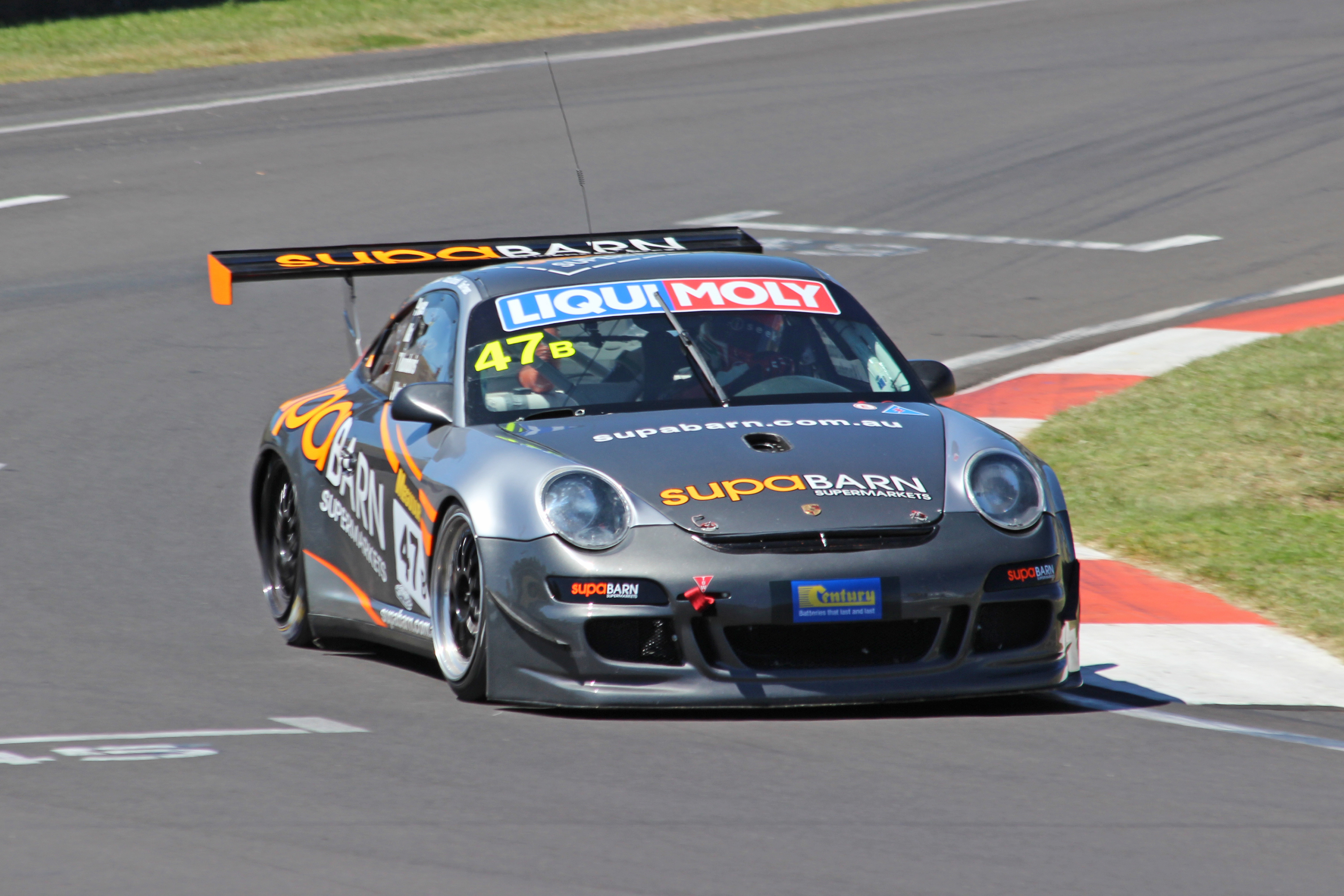 The Class B-winning Porsche 997 of James Koundouris, Theo Koundouris, Marcus Marshall and Sam Power at the 2015 Liqui Moly Bathurst 12 Hour.